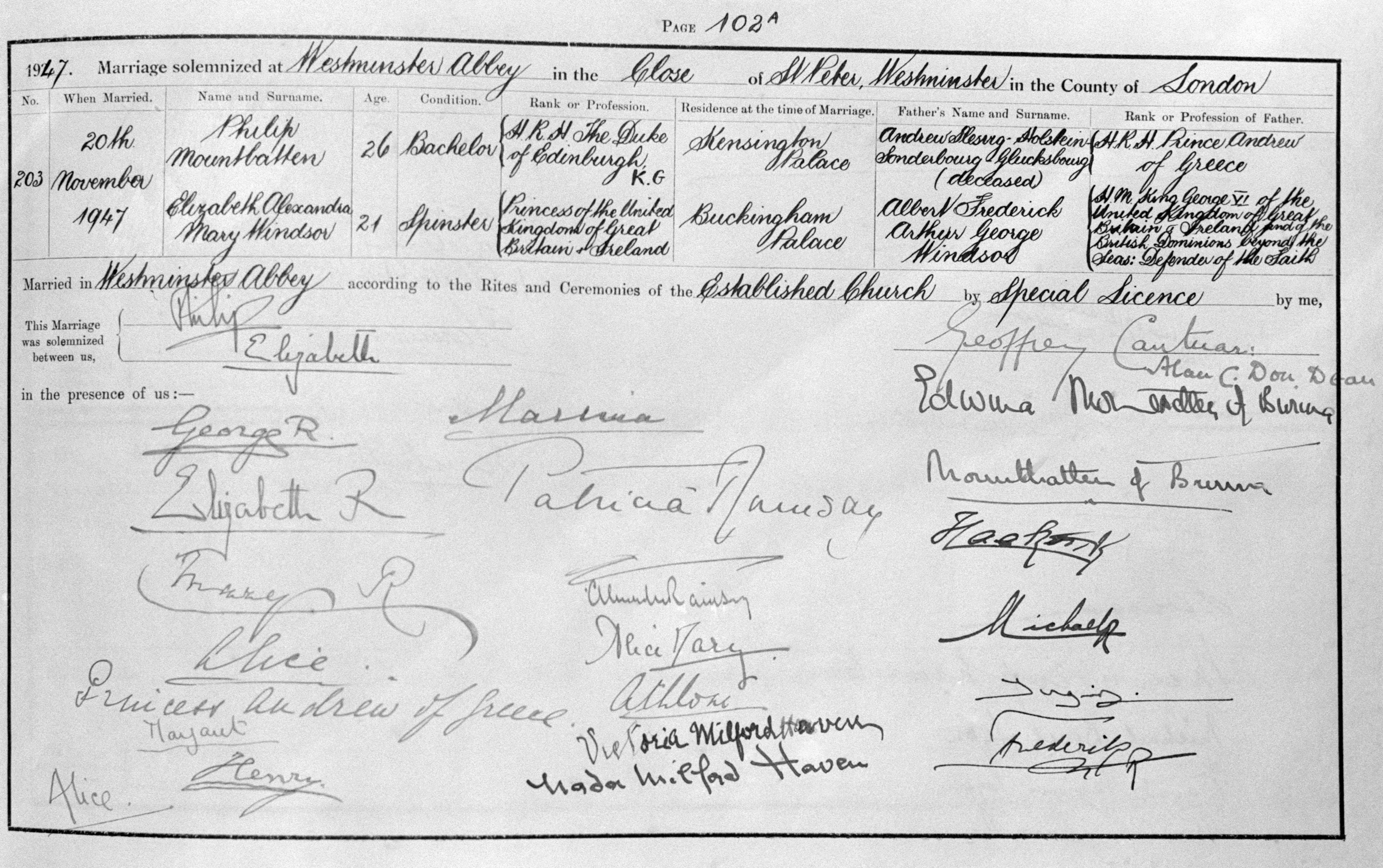 Marriage certificate of Philip Mountbatten and Elizabeth Windsor in the register of Westminster Abbey